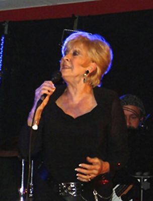 picture of singer Kelly Green in concert in 2011. taken by myself